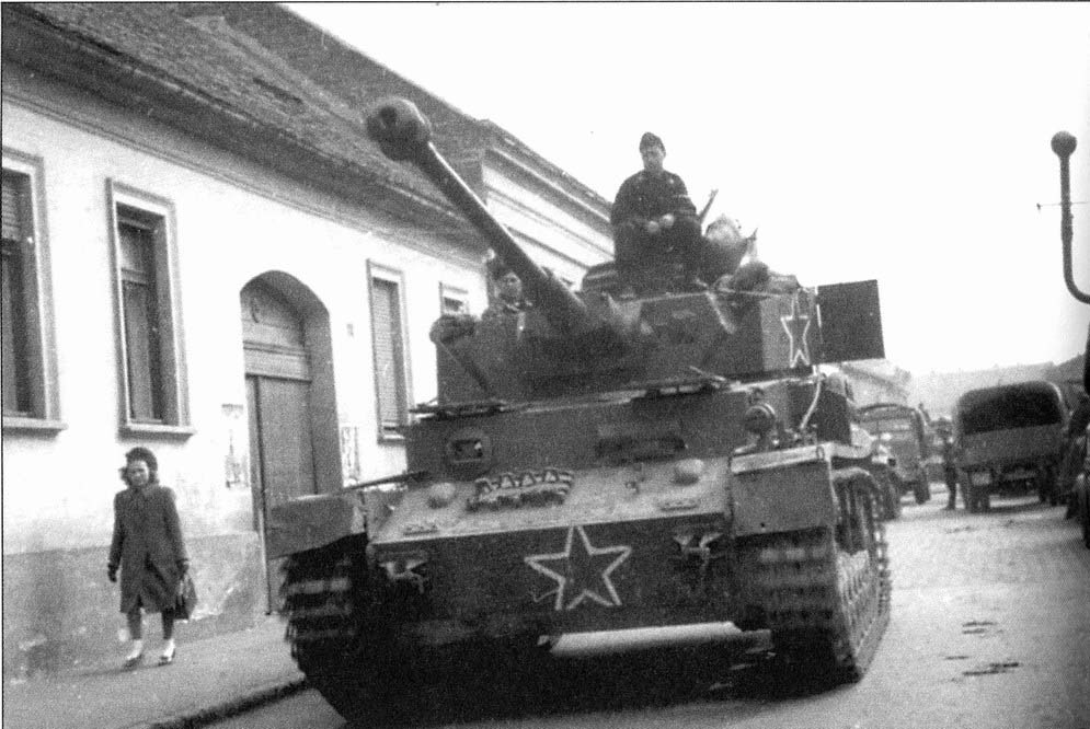 Bulgarian army tank Panzer IV in Hungary in March 1945. The tank is marked with pentagram that non to be confused with German one.